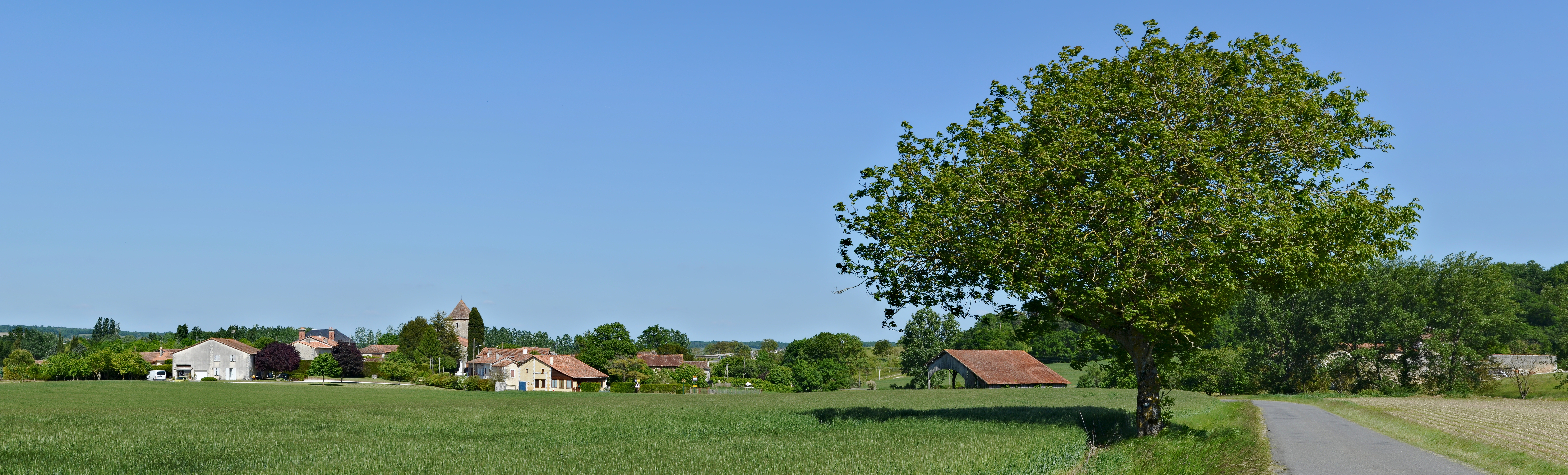 Road D 458 and west view of the village of Pillac, Charente, France.